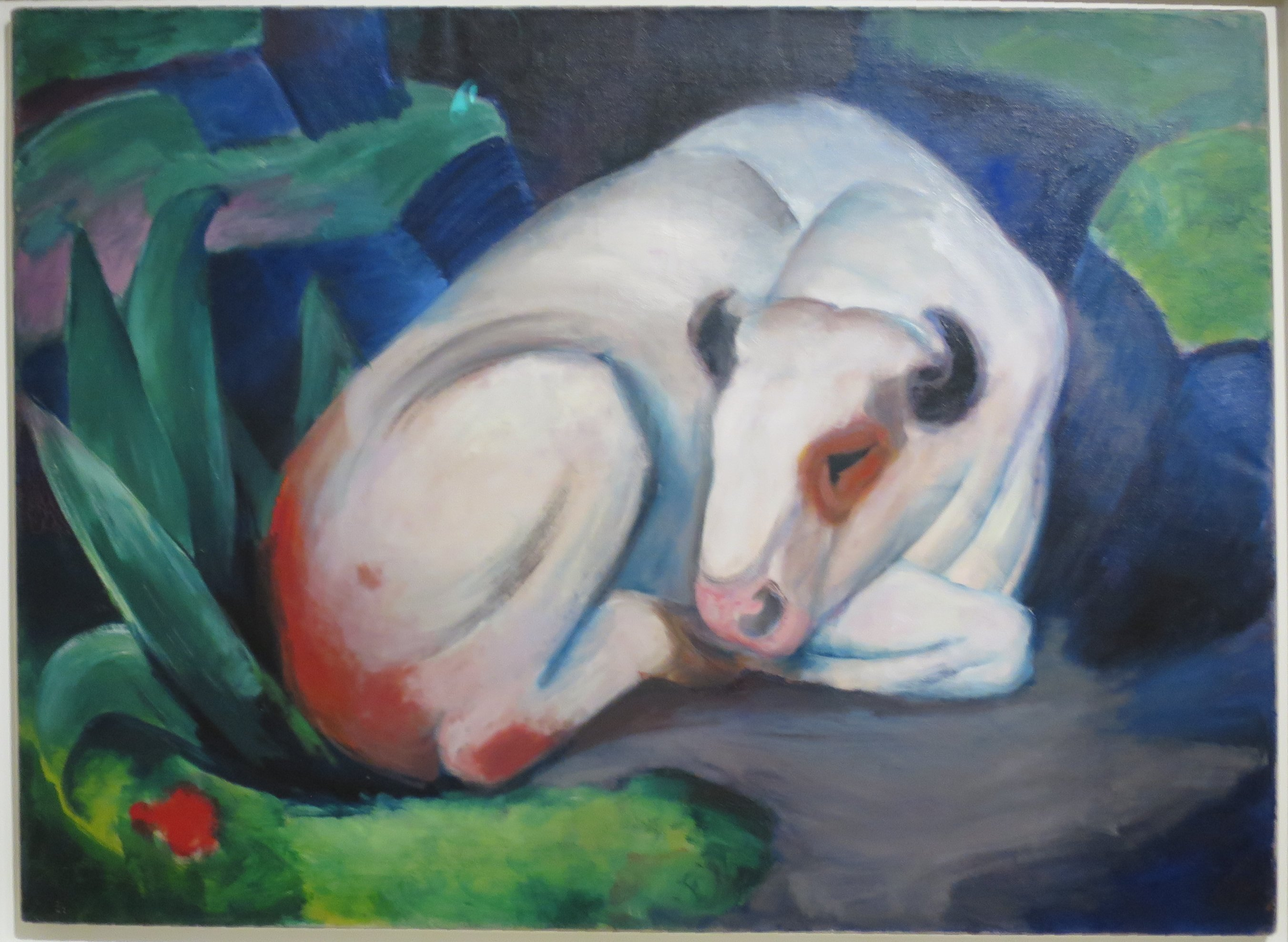 The Bull (Der Stier)